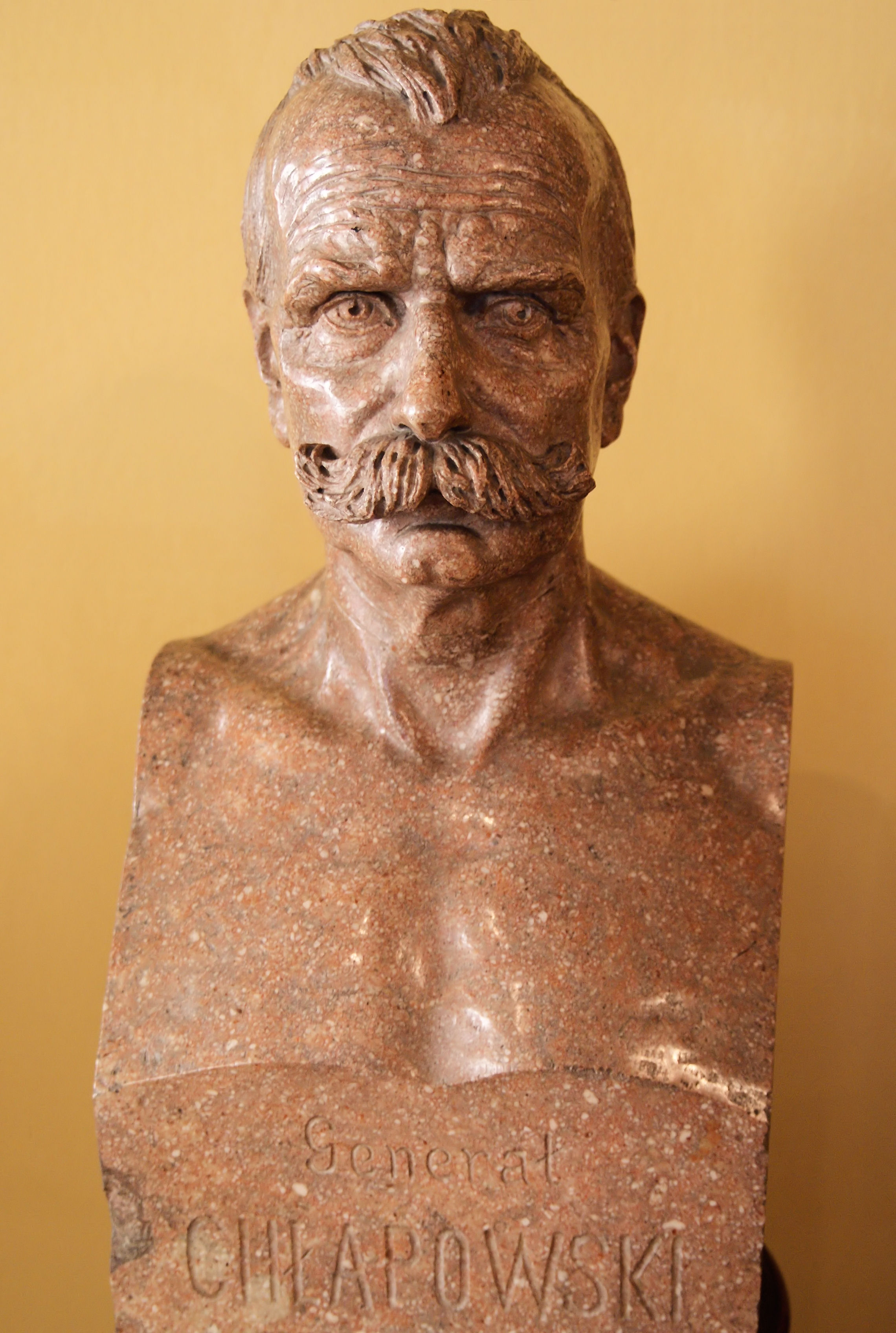 Dezydery Chłapowski, History of Poznań Museum, Poznań, Poland